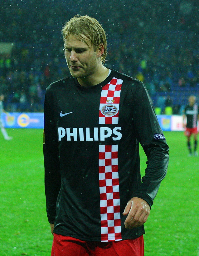 Ola Toivonen